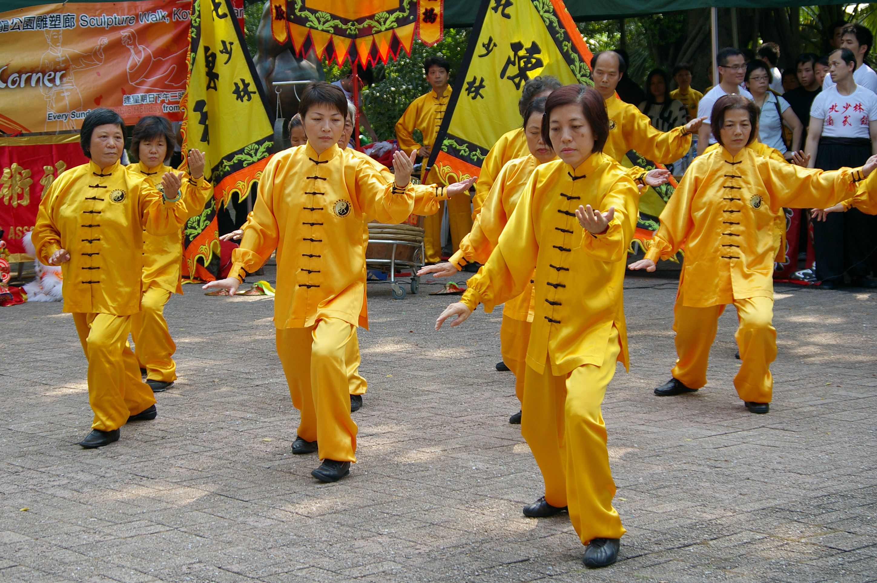 Tai Chi Chuan at Kung Fu Corner, Kowloon Park, Hong Kong